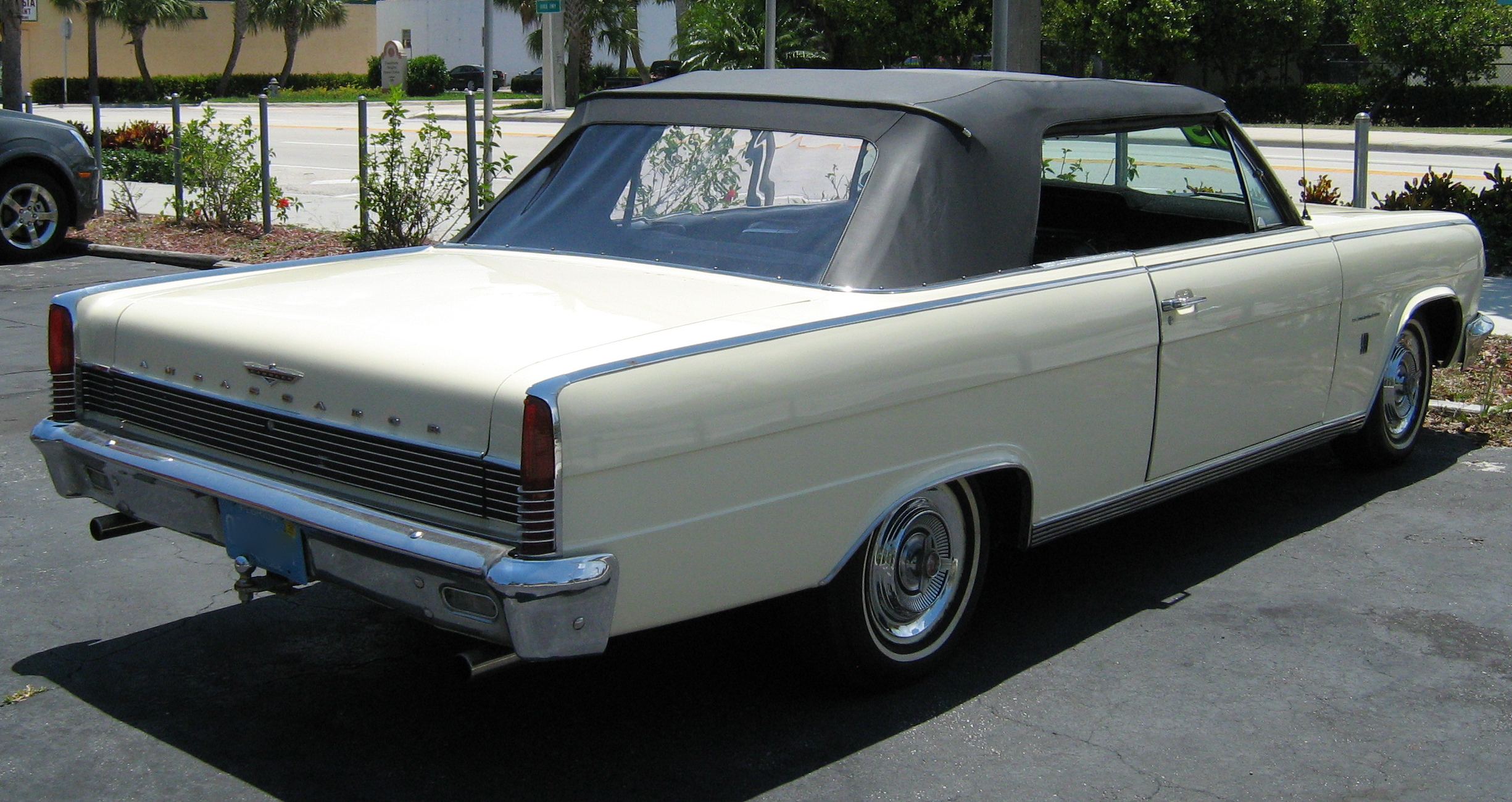 1965 Ambassador 990 convertible by American Motors (AMC). The year a convertible model was introduced in AMC's big car platform and the last year that the Ambassador line used "Rambler" as part of its name.